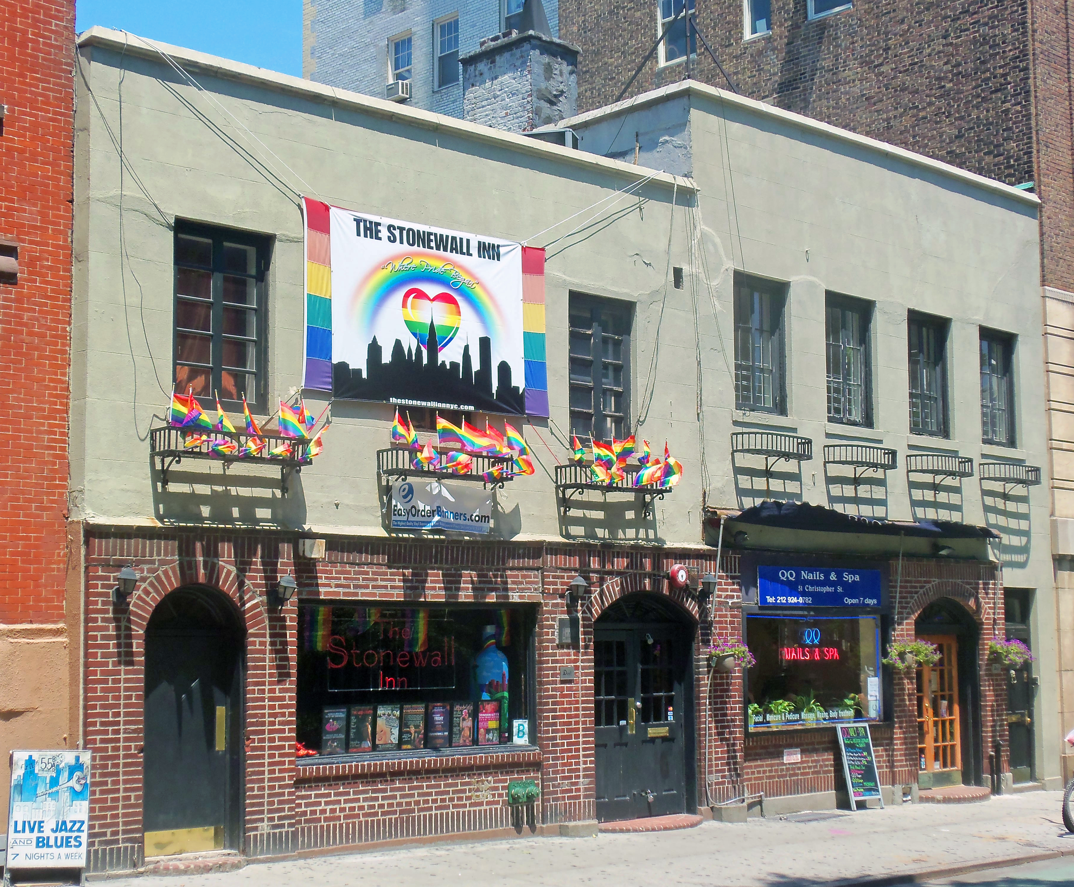 Stonewall Inn, birthplace of the modern gay-rights movement, festooned with gay-pride banners and flags the weekend after Gay Pride Day